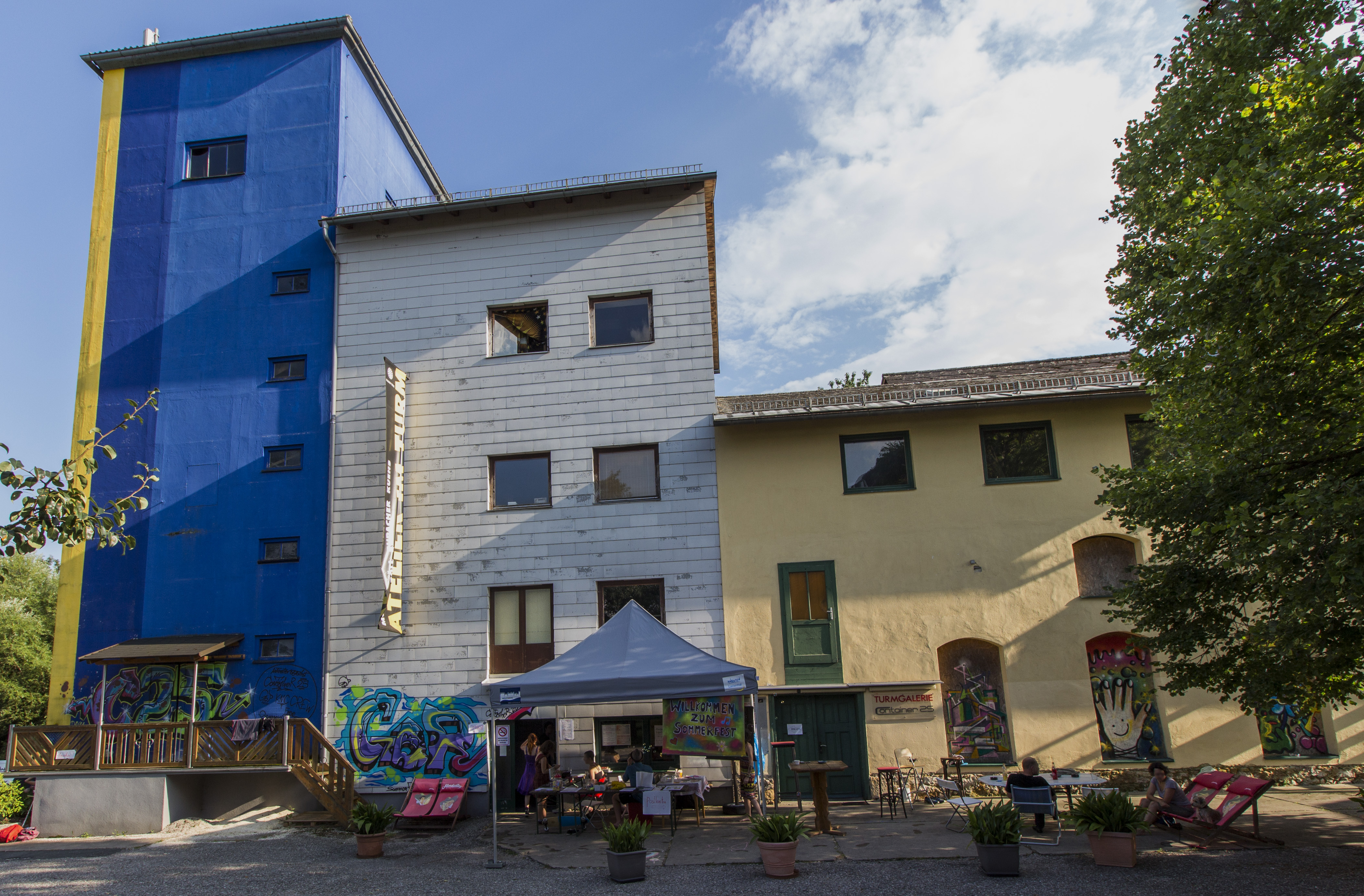 Exterior view on the premises of the association "Container 25" during an event in August 2017; Carinthia, Austria.